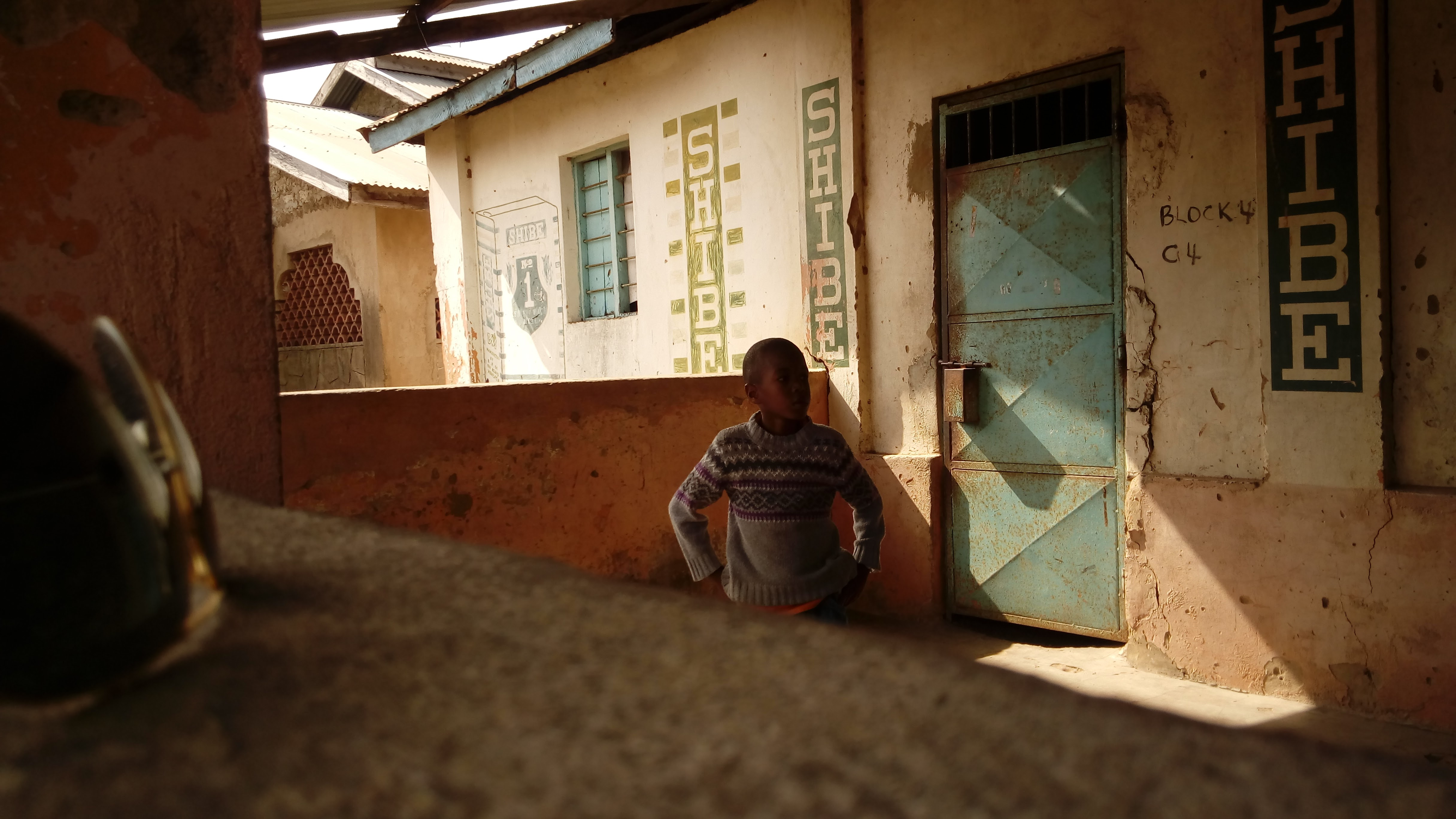 This is an image with the theme "Play" from: Kenya